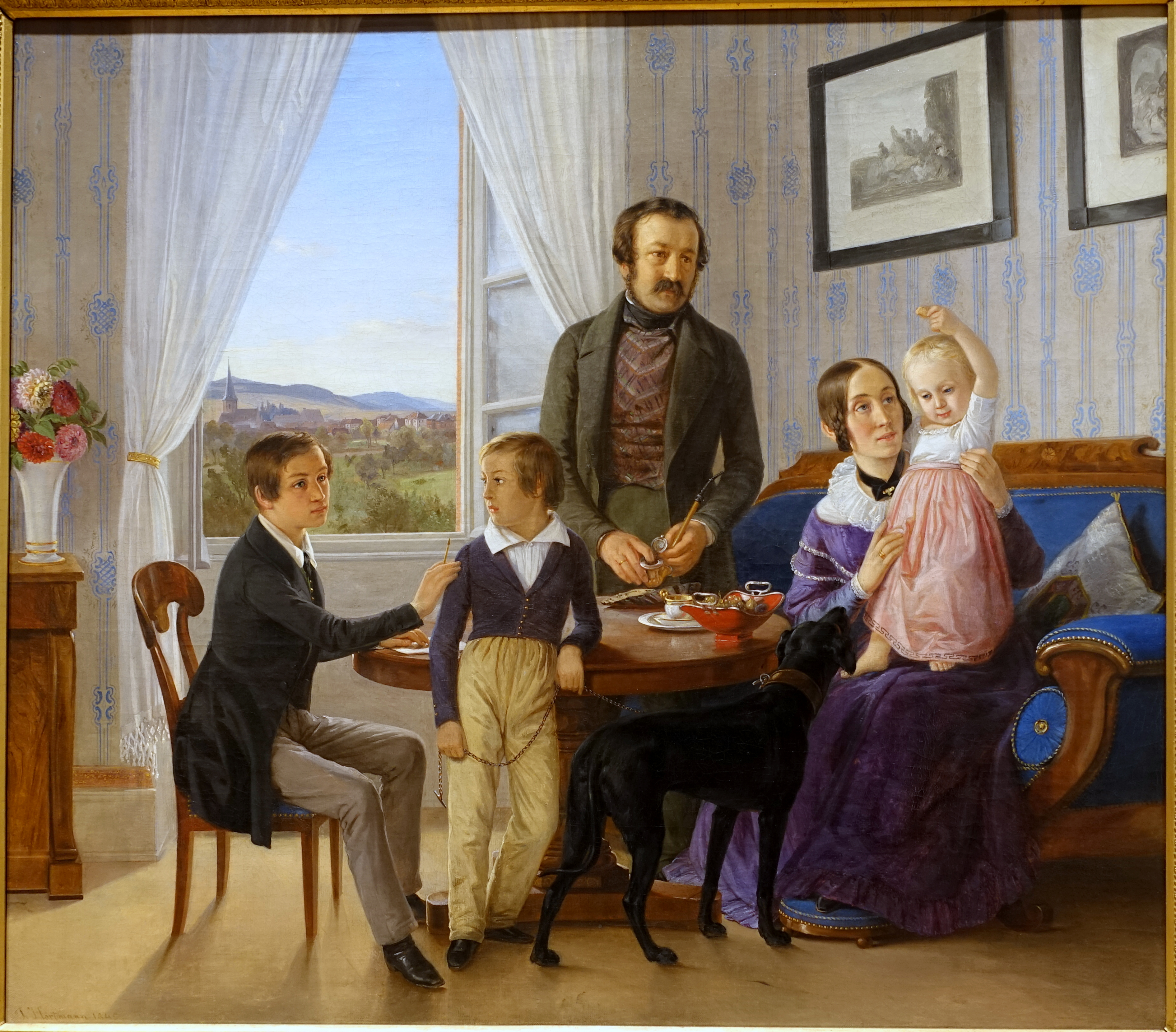 Exhibit in the Hessisches Landesmuseum Darmstadt - Darmstadt, Germany.